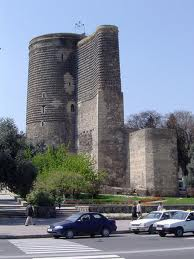 Maiden Tower